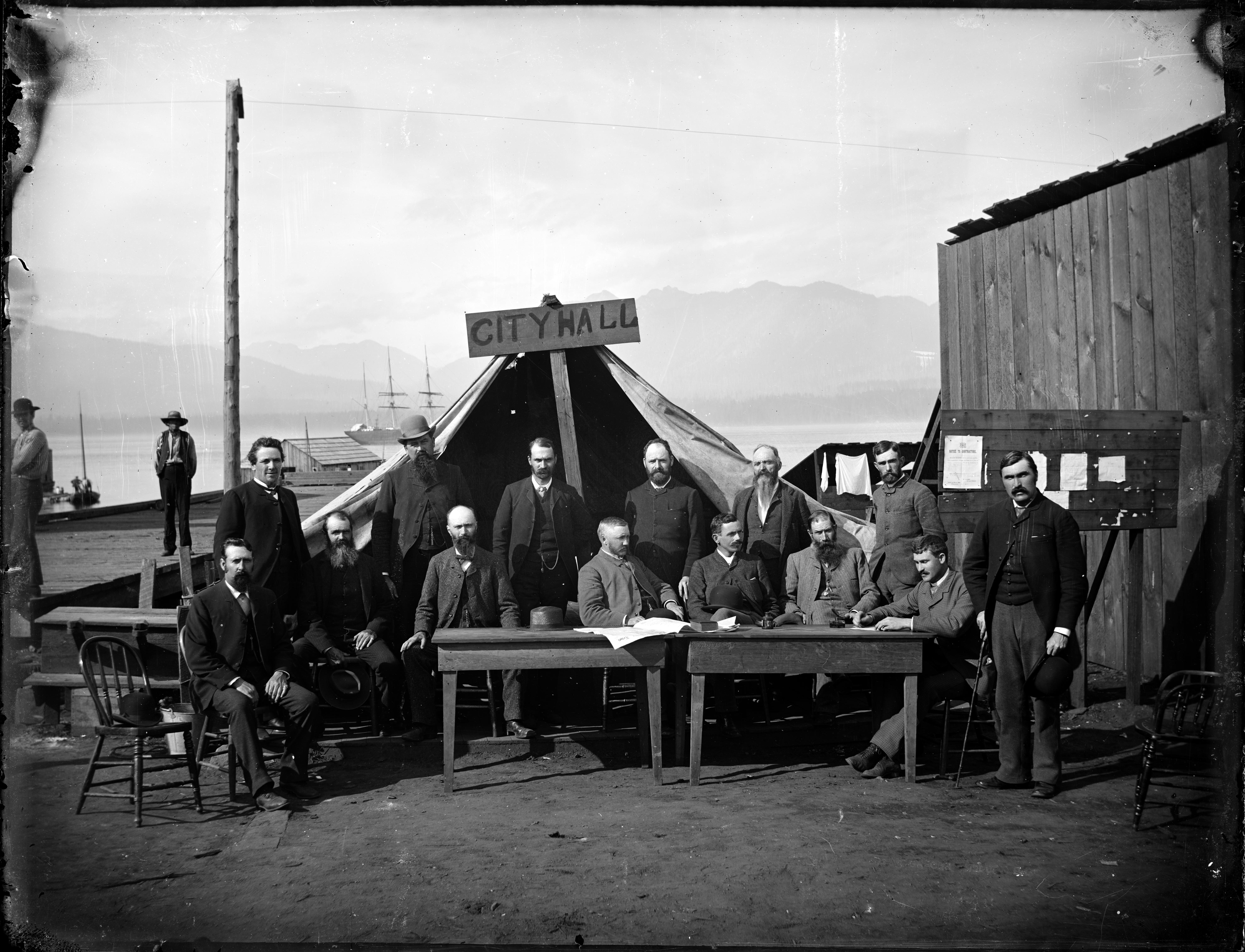 PHOTO NUMBER: 1089 DESCRIPTION: First Vancouver City Council Meeting after the fire PHOTOGRAPHER: H.T. Devine DATE: 1886 SUBJECTS: Carrall Street More information on our historical photograph collection